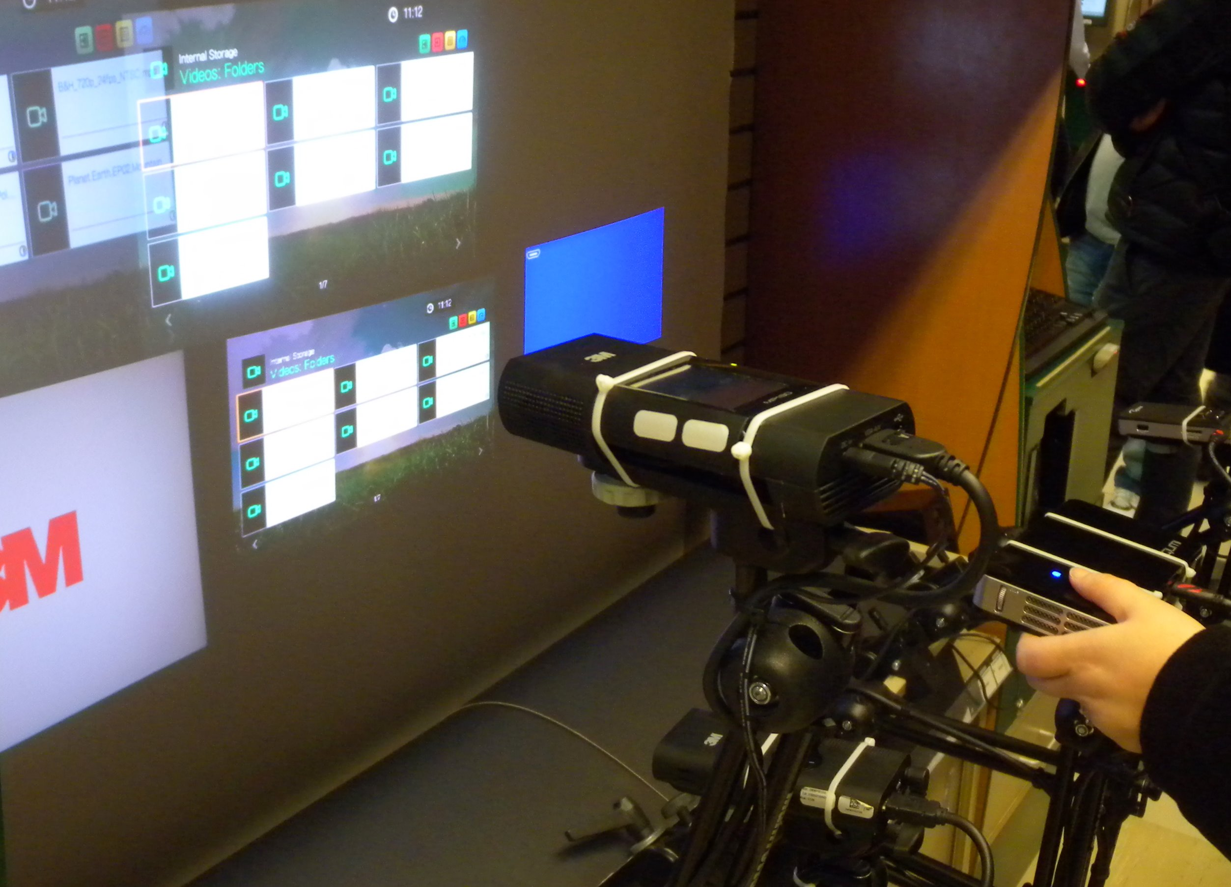 Looking north at hand held projector in photo store.